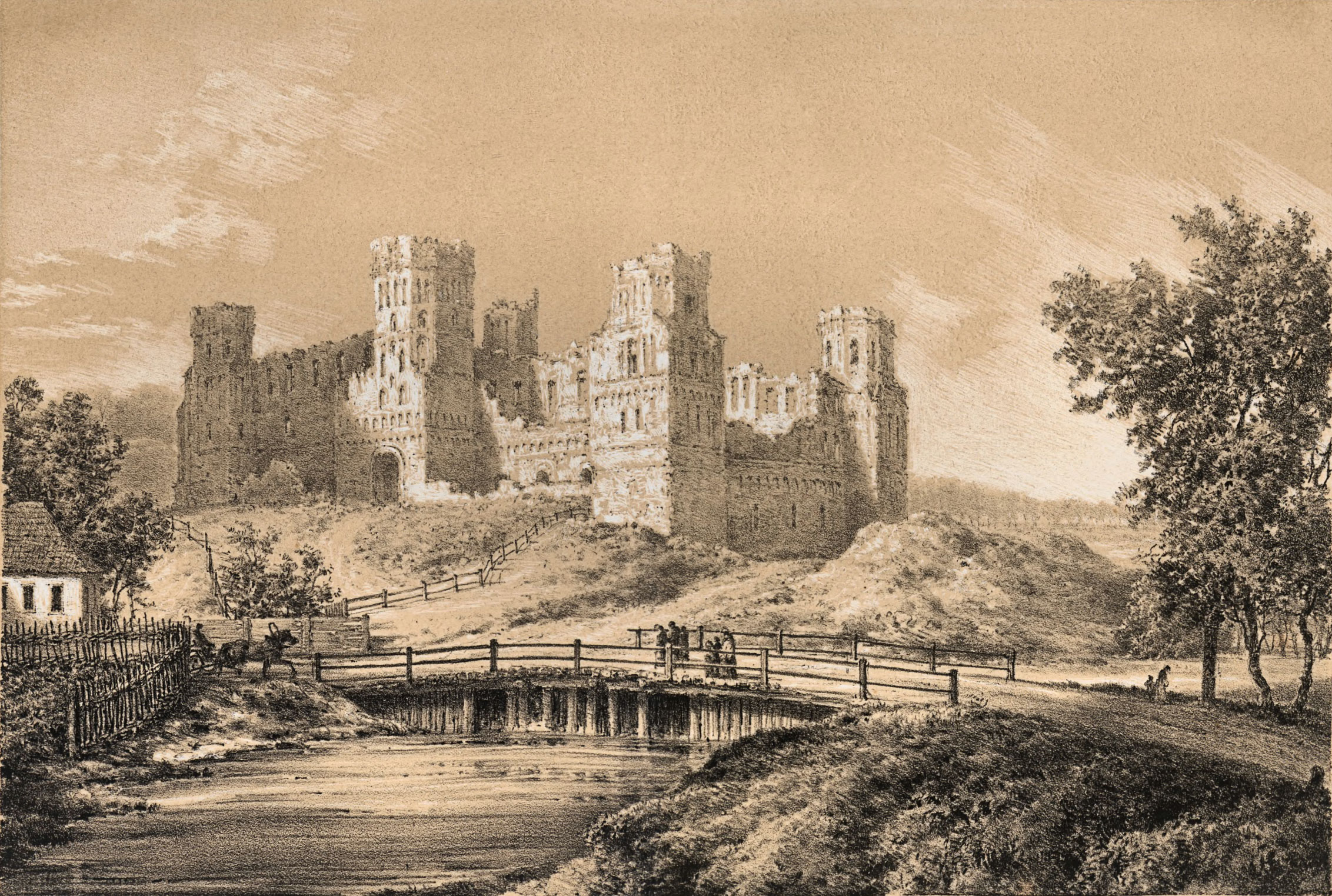 Original caption: Mir (Minsk gubernia), ruins of the once magnificent castle built by Jerzy Illinicz at the end of 15th century. His son, on his heirless death in 1568, gave his estate to Prince Krzysztof Mikołaj "The Orphan" Radziwiłł